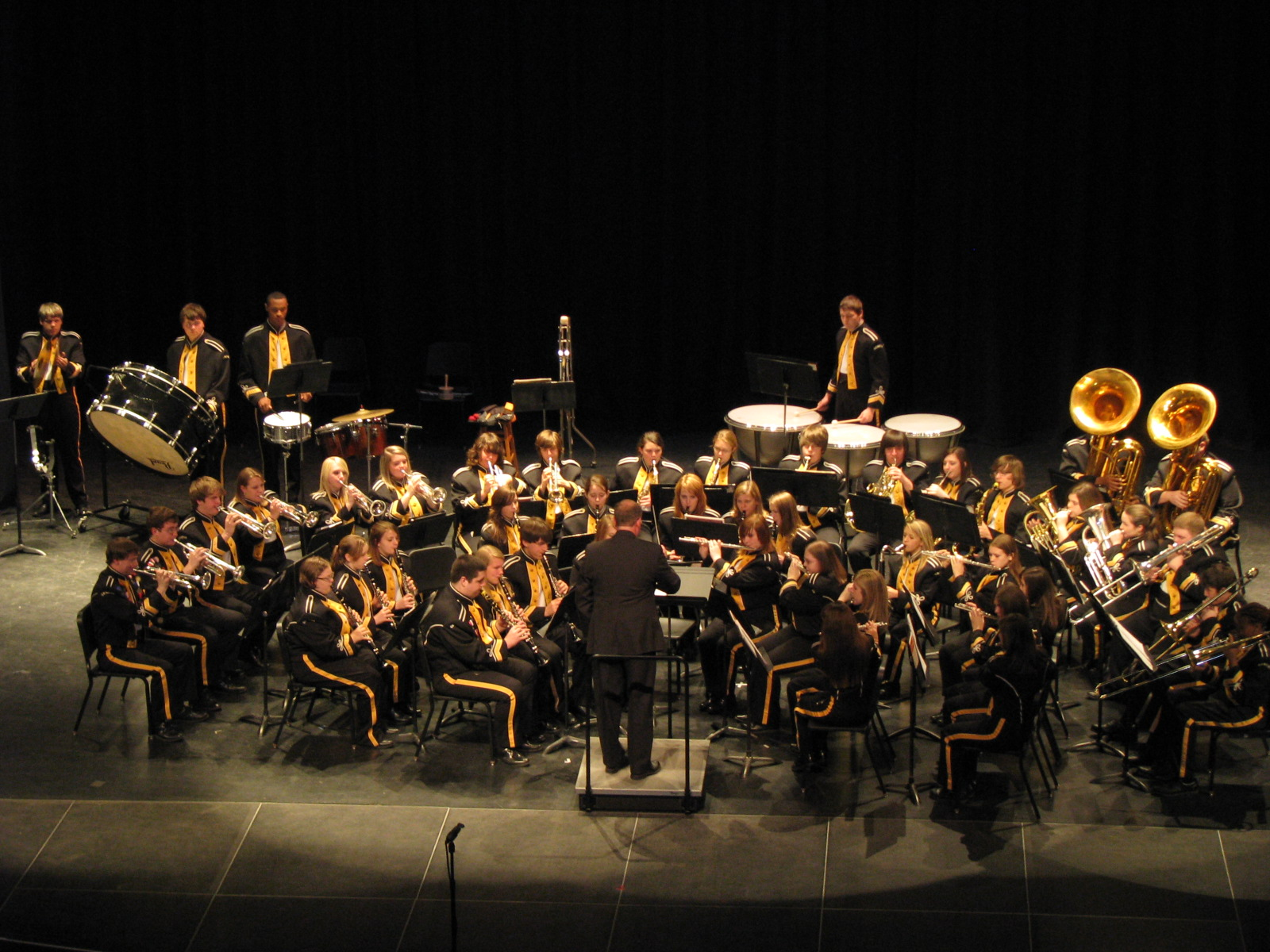 This is the Geneva High School Band at Troy University